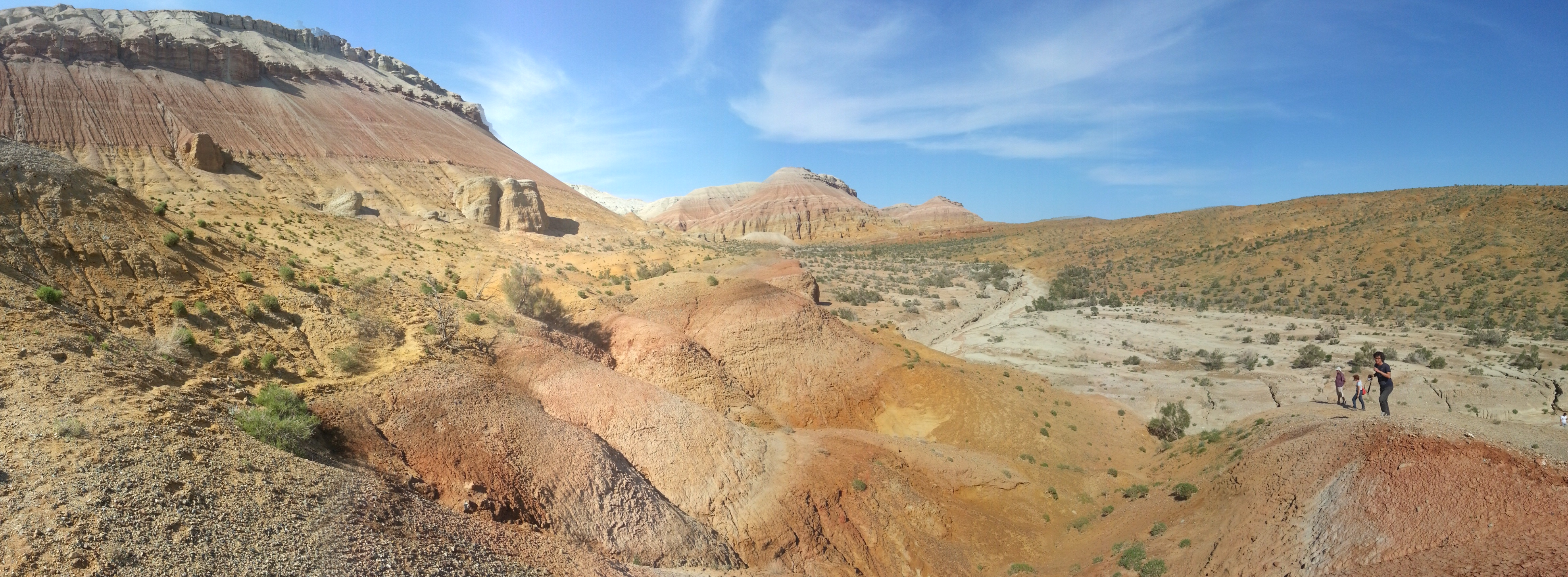 Aktau, in Altyn Emel National Park, Almaty Oblast, Kazakhstan.